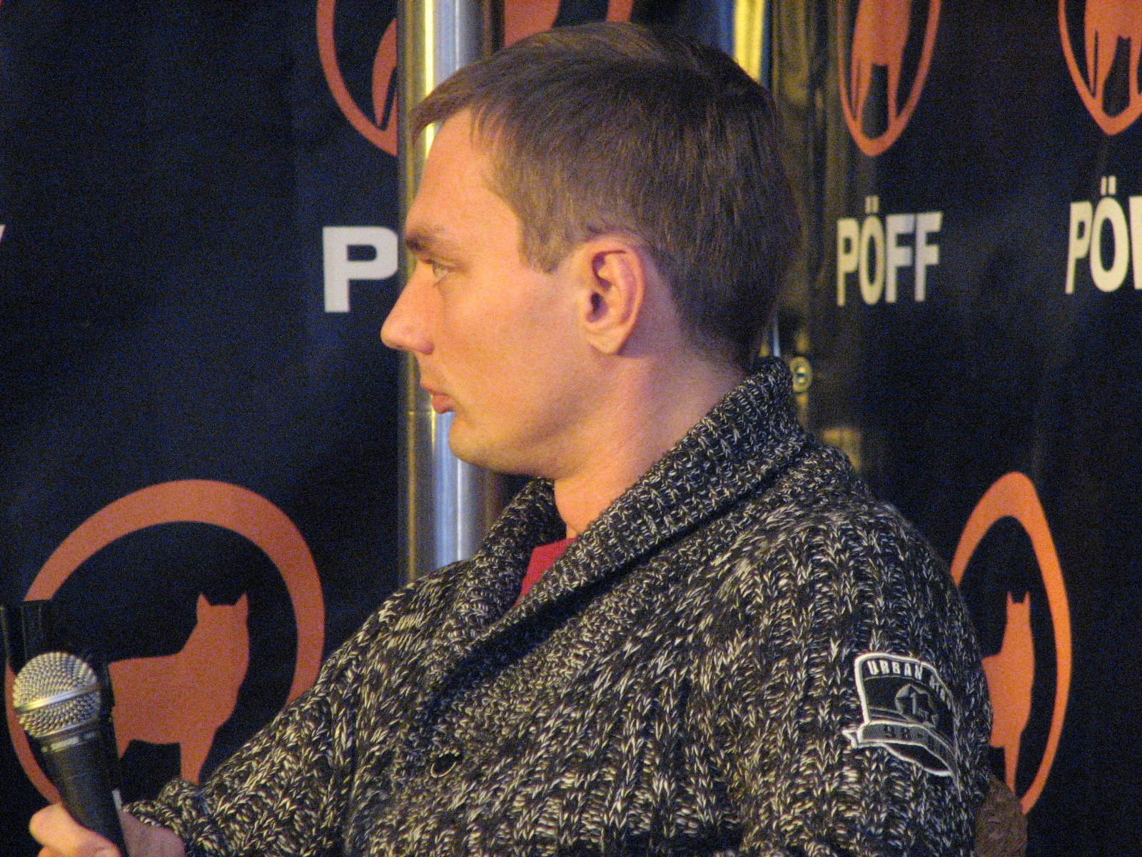 Jan Jõgis-Laats performing in Tallinn Black Nights Film Festival 2010.